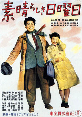 Movie poster for 1947 Japanese movie One Wonderful Sunday (素晴らしき日曜日, Subarashiki Nichiyōbi).